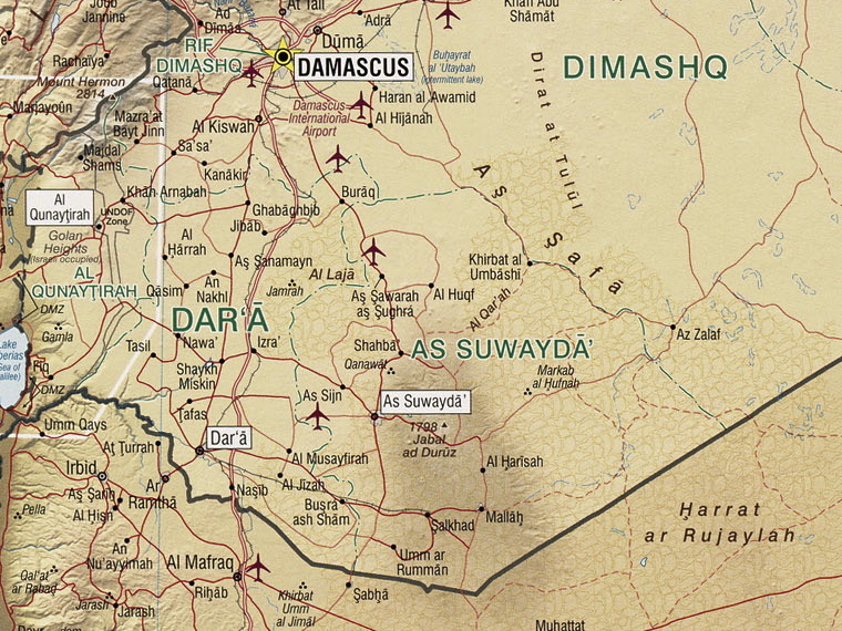 Map of the Jabal al-Druze and Quneitra Gouvernate in southern Syria.